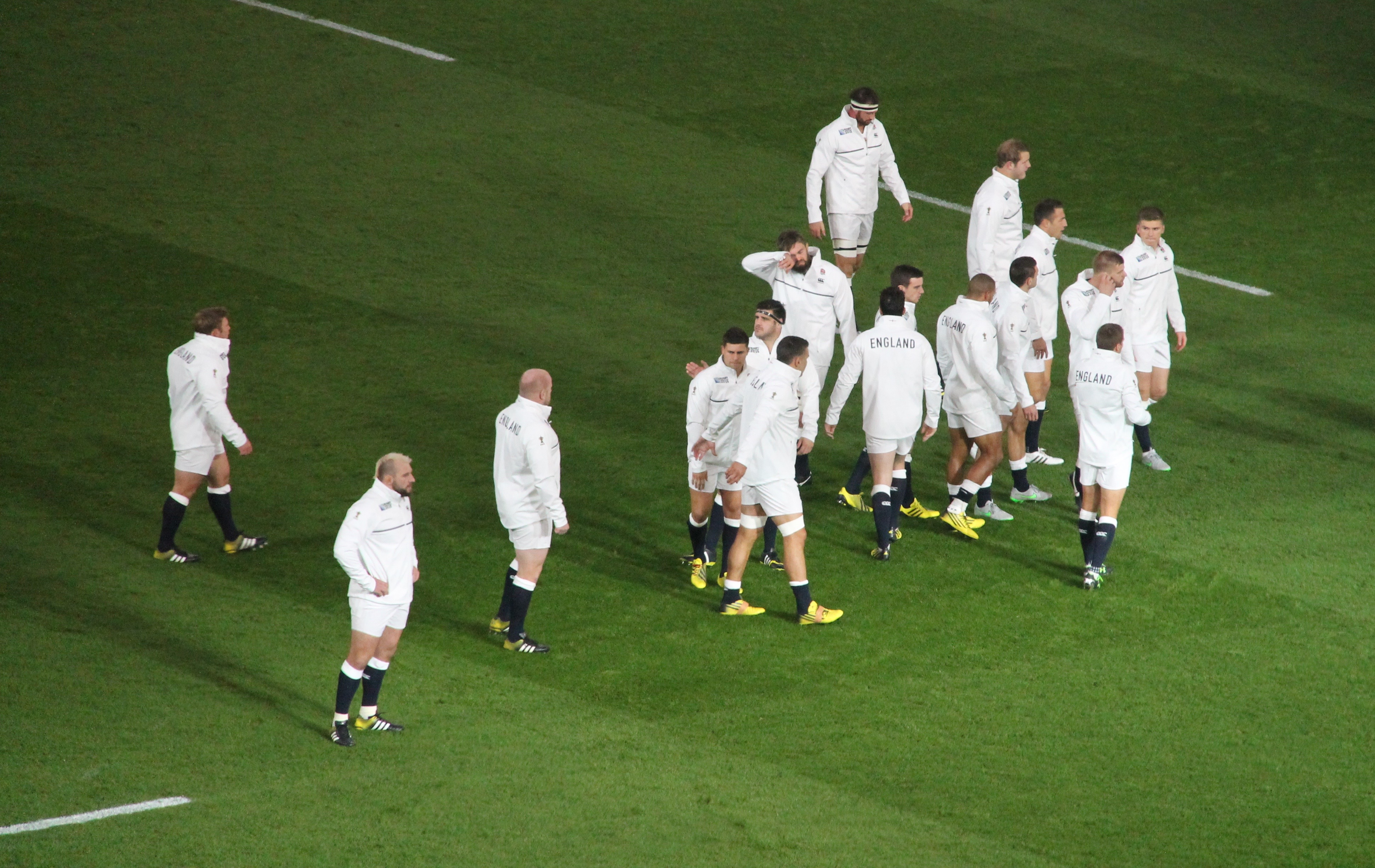 2015 Rugby World Cup match between England and Australia at Twickenham Stadium, London.